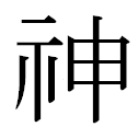 Kyuujitai form of the kanji 神. I used Paint